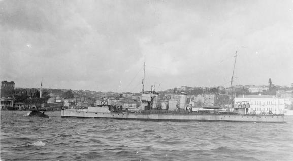 The Greek Navy during the First World War The Greek torpedo boat Doris in Constantinopole 1919.